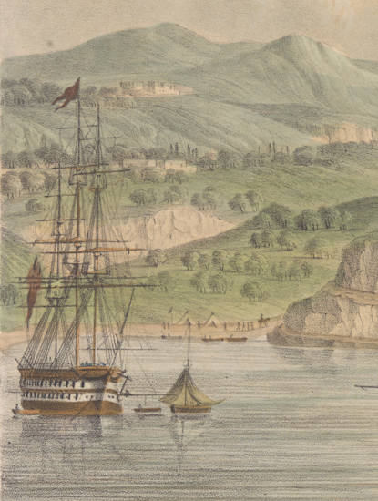 Princess Charlotte. English Camp at Djouni Syria 1840. Shows Powerful RMG PW8043. A view of the ‘Princess Charlotte’ at the English camp at Djouni, Syria in 1840. The tents can be seen in the background on the right. A two-decker sailing vessel, probably the 'Powerful', is anchored on the left of the picture. During the Syrian operations, she was the flagship of Admiral, the Honorable Sir Robert Stopford when he was C.I.C. Coloured lithograph.